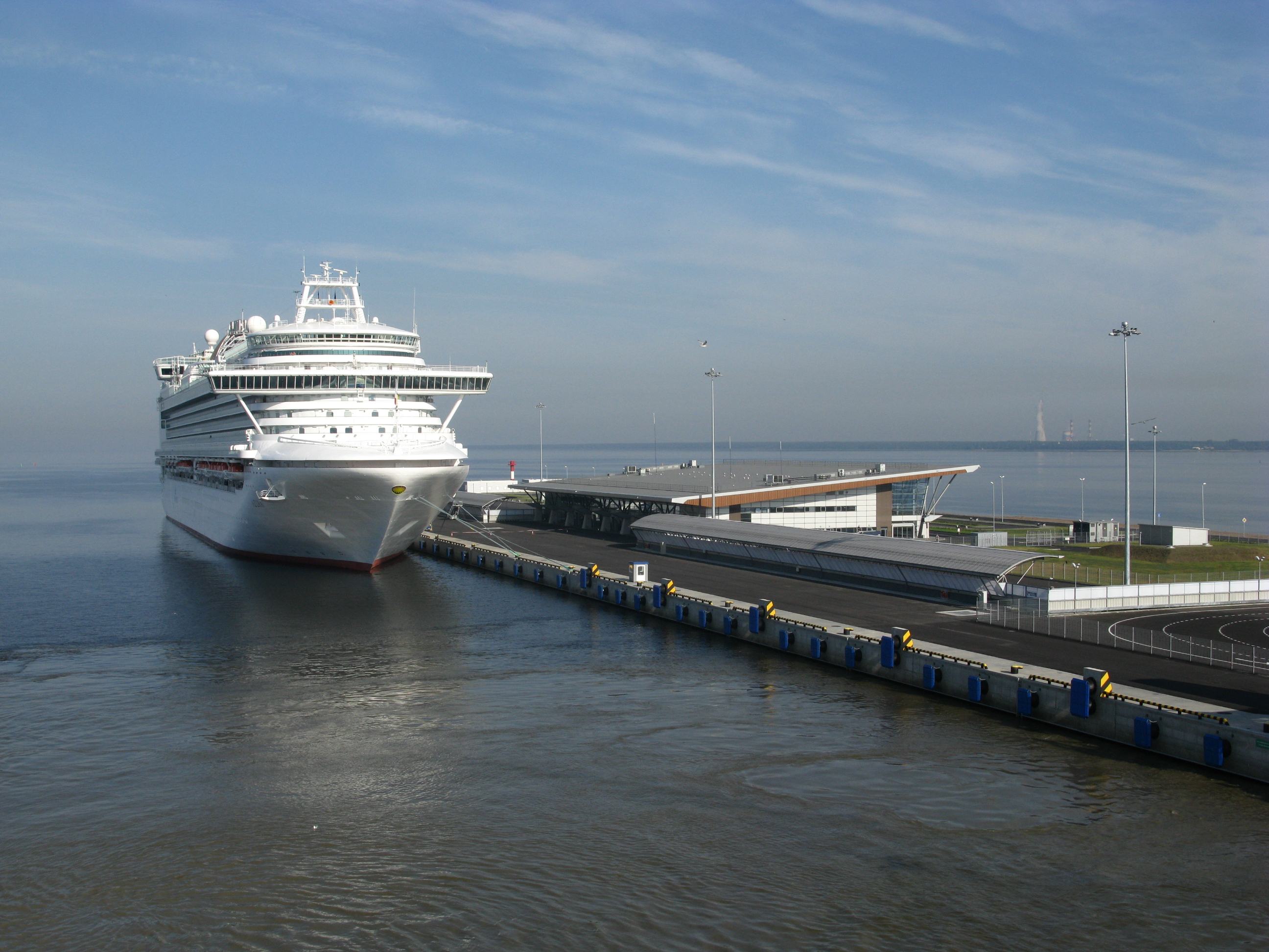 A cruise ship at the new Sea Passenger port in Saint-Petersburg